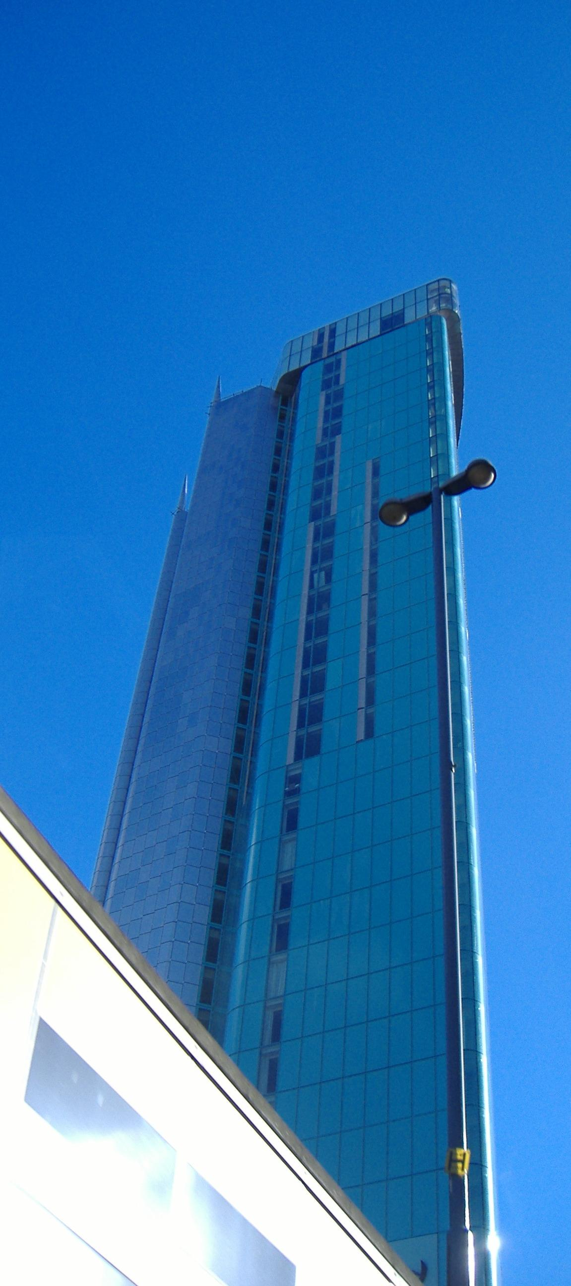 This is Beetham Tower, Birmingham taken as the vehicle entered the underpass at Holloway Circus. This was taken in February 2006 as the tower was nearing completion however before the clips on the panels needed to be replaced. This is the rear of the tower.